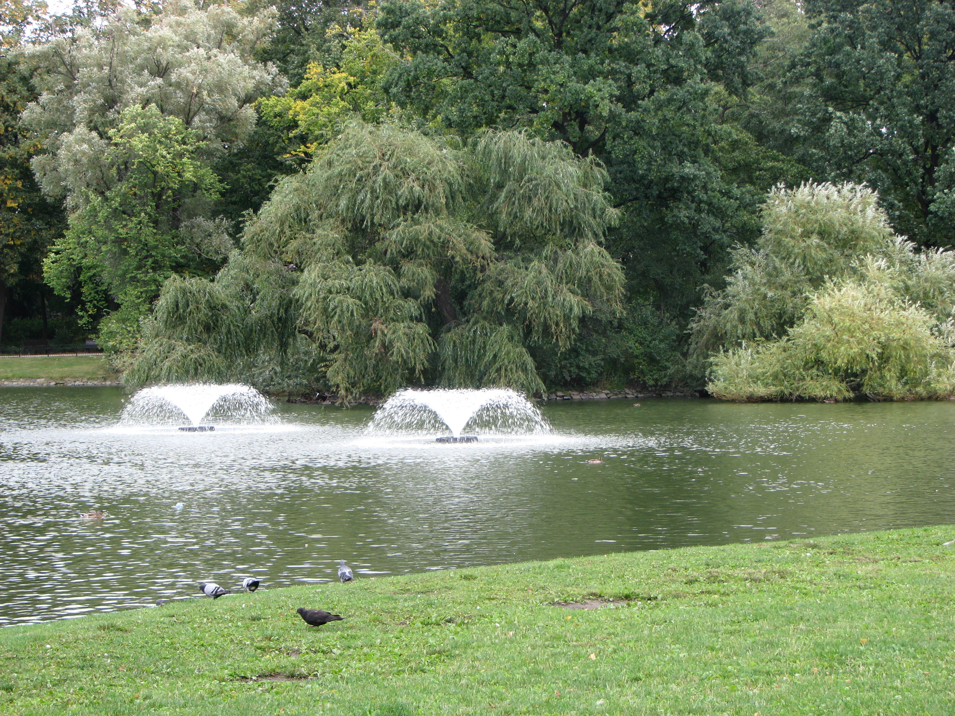 Pond with fountains in the South Park in Wrocław, Poland.